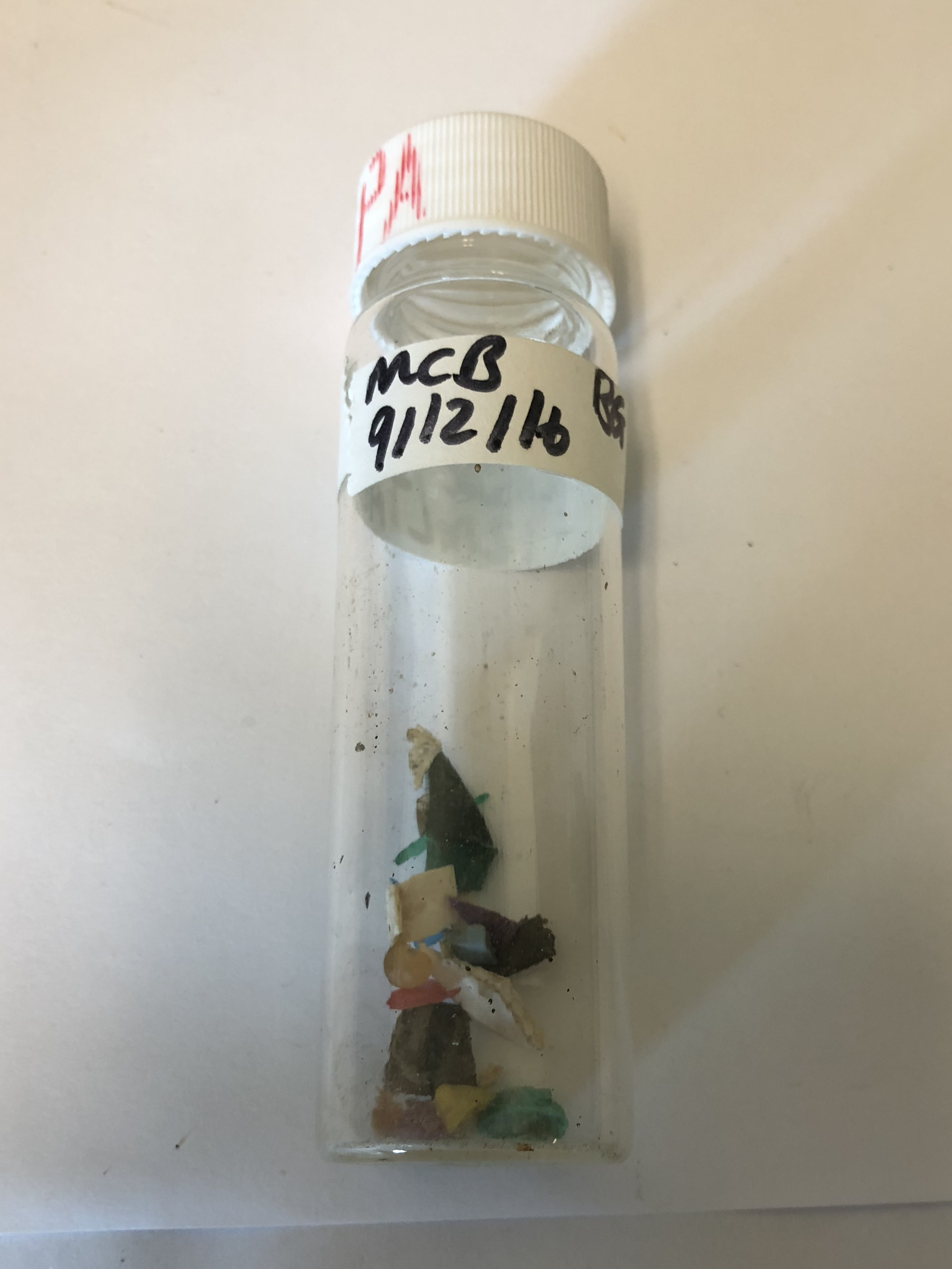 Sample of microplastics